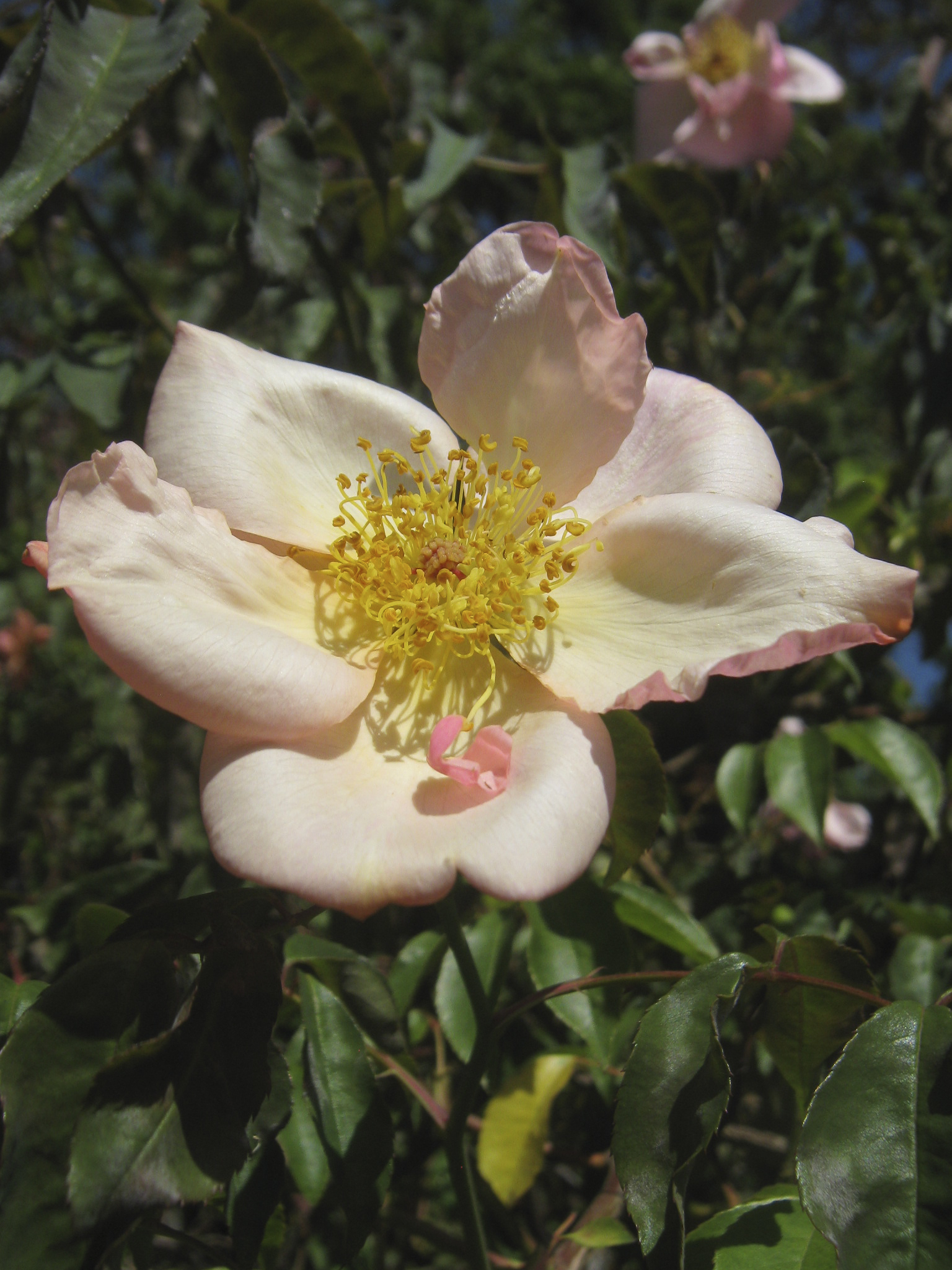 Rose 'Broadway', Hybrid Gigantea attributed to Alister Clark; photographed in the Alister Clark Memorial Rose Garden, Bulla, Victoria